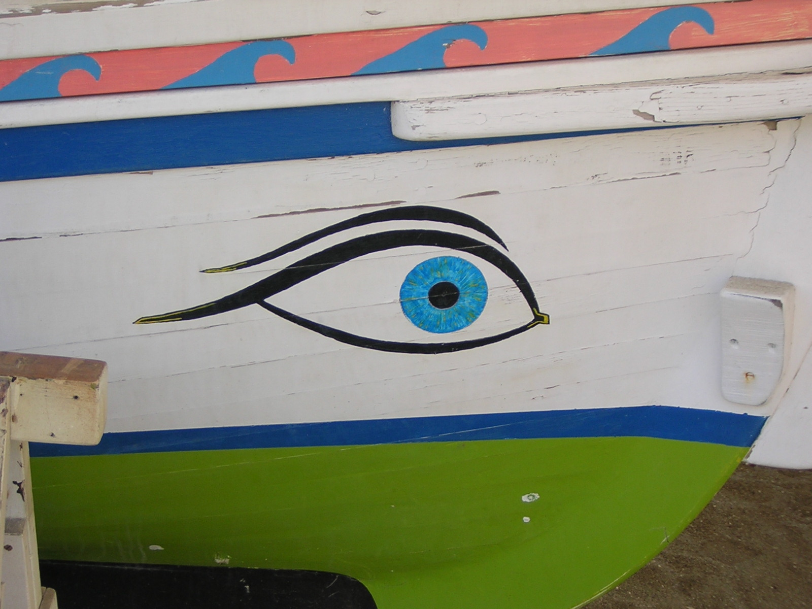 A boat in El Palo, Malaga with eyes to ward off evil spirits.